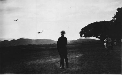 Gómez watching a plane in Maracay, 1930.